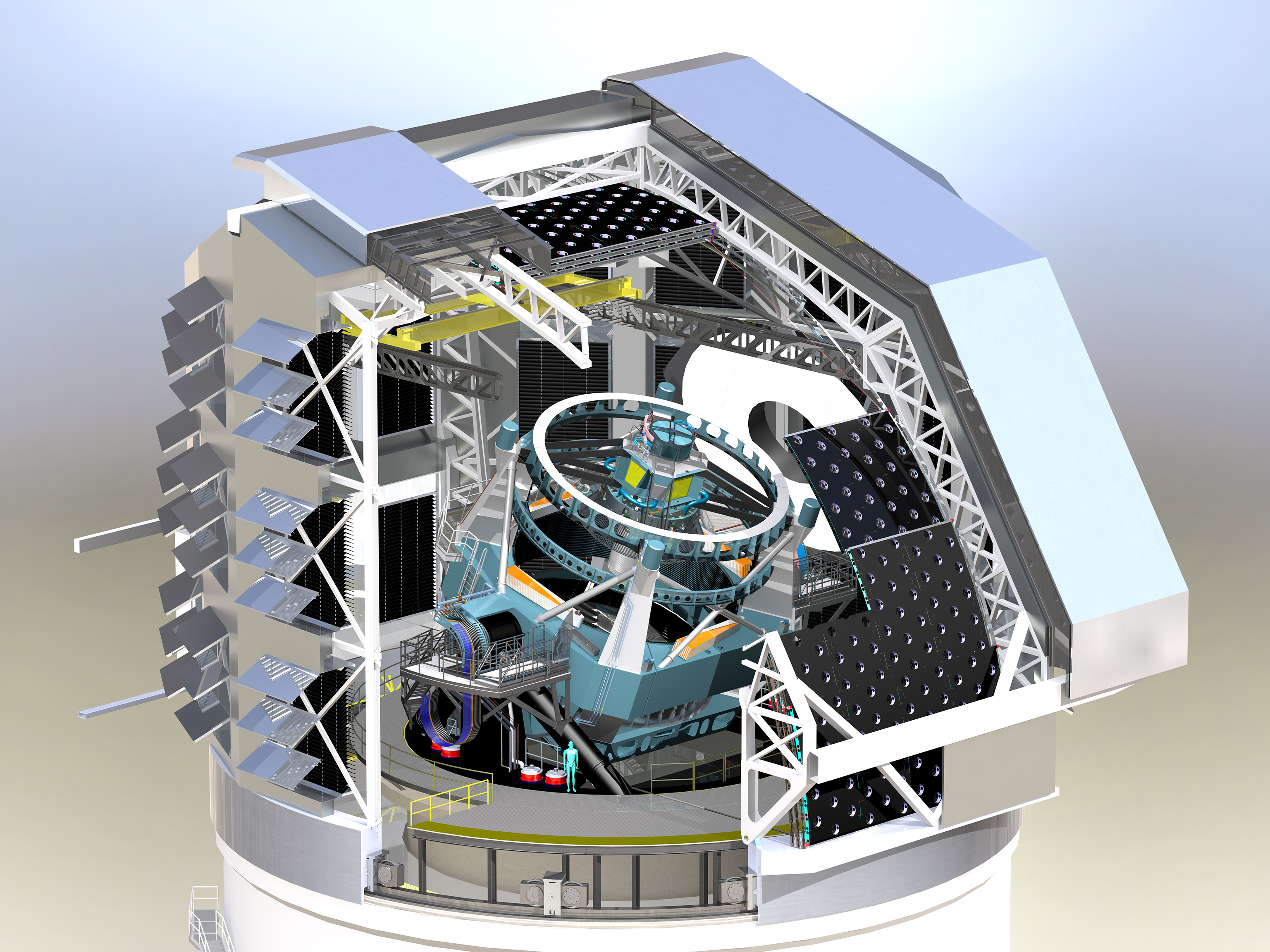 A three dimensional rendering of the baseline design of the dome with a cutaway to show the telescope within.